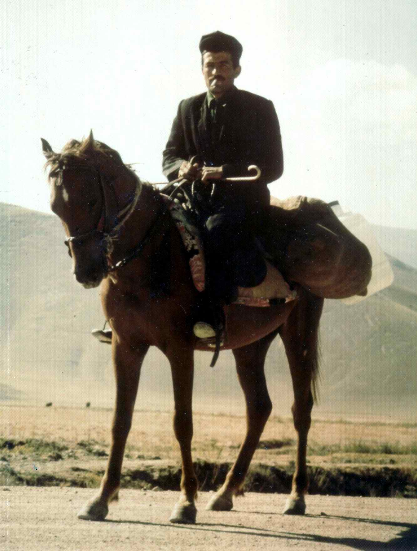 I took this photo myself in 1993. Note: This photo was actually taken in 1973 NOT 1974 - but I don't know how to change the name and it probably doesn't matter much. John Hill 01:57, 18 August 2007 (UTC)